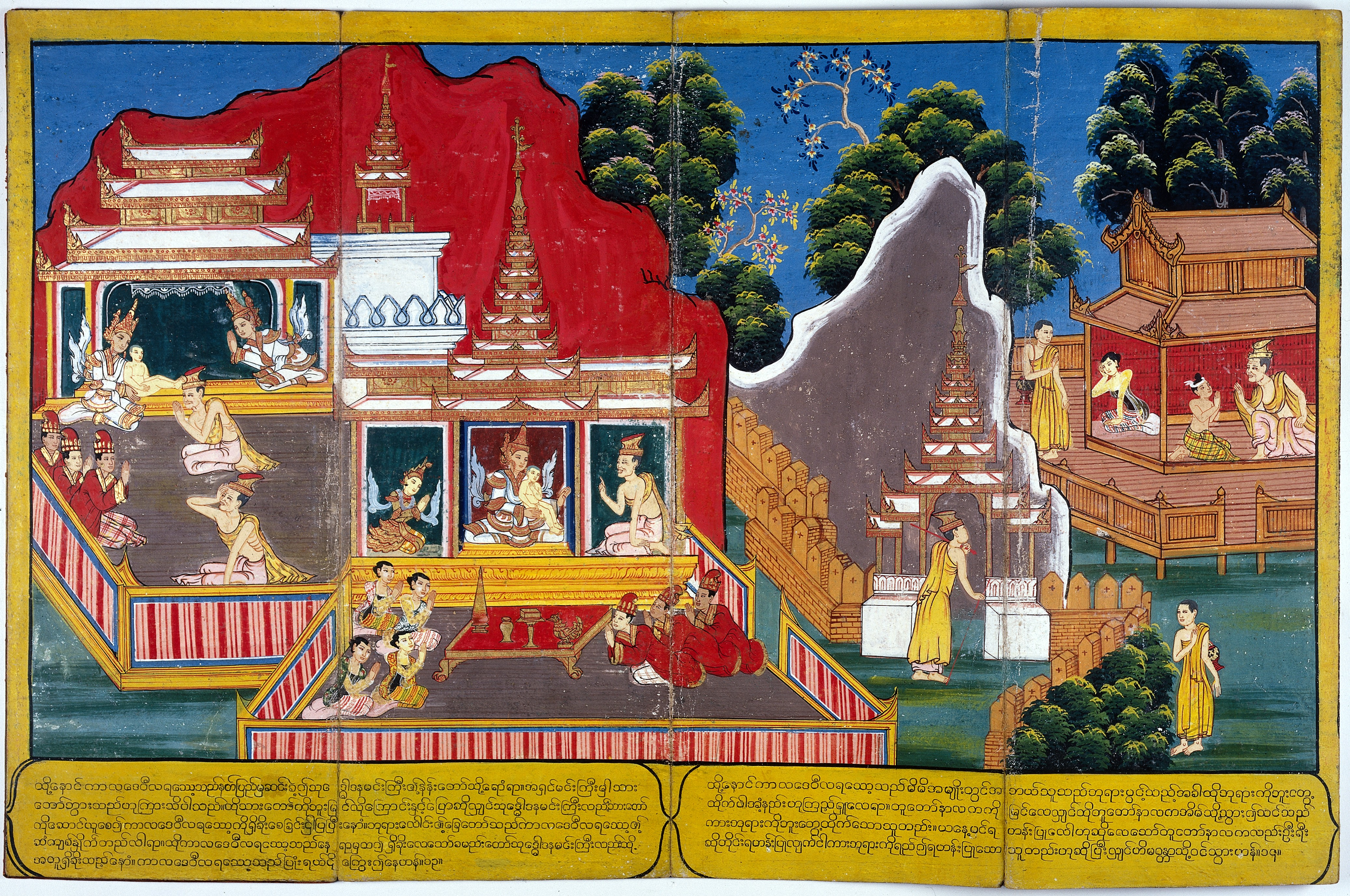 (Far left) The ascetic Kaladevala and King Suddhodana pay their respects to the Bodhisatta. Kaladevala smiles, then cries. (Centre left) Kaladevala is seen explaning to the King and Queen Maha-Maya why he smiled and then wept, (Centre right) Kaladevala is then seen visiting his relatives, or sisters house, to see if any of them would be able to receive the teachings of Budda. (Far right) He tells his nephew Nalaka to leave secular life and wait for Bodhisatta to attain Buddhahood in 35 years. The boy is seen leaving the house to live an ascetic life in the Himalayas Asian Collection Keywords: Buddhist; God; ms burmese 22; Buddhism; Religion; Art; Buddha